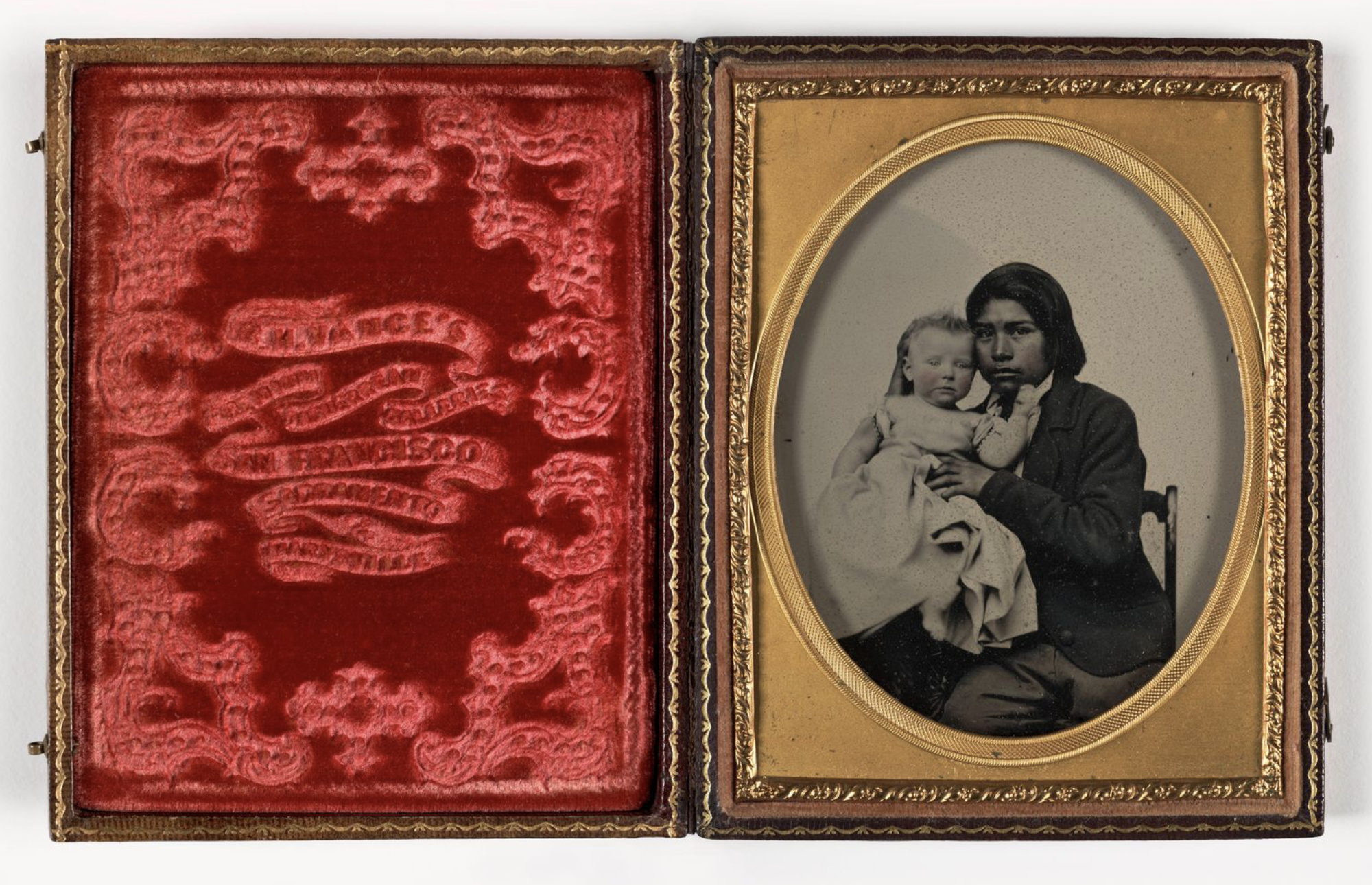 Untitled (Maidu boy). Ambrotype by Robert H. Vance, c. 1850 (12.07 cm x 9.37 cm x 1.59 cm)